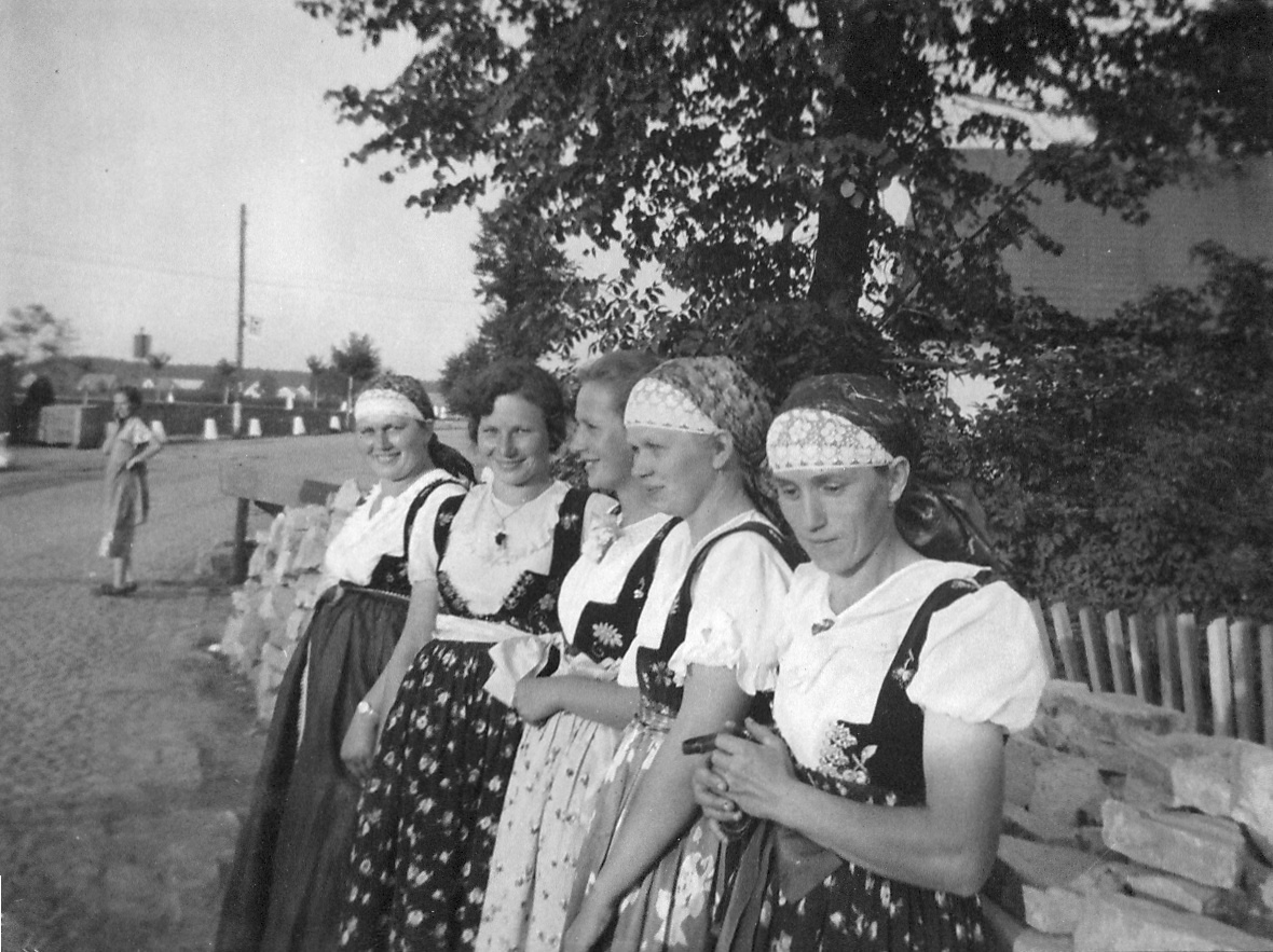 Women wearing Cieszyn folk costumes in Skoczów, Poland